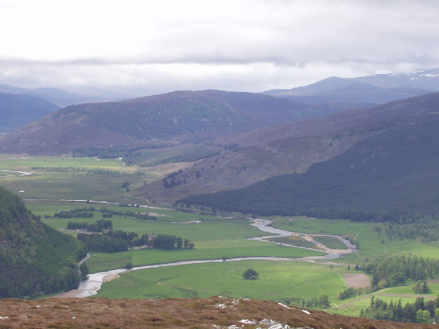 River Dee. Looking south from the top of Creag Leek. The River Dee has a wide flood plain here. Braiding can also be seen.